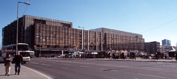 The "Palast der Republik" in Berlin, Germany